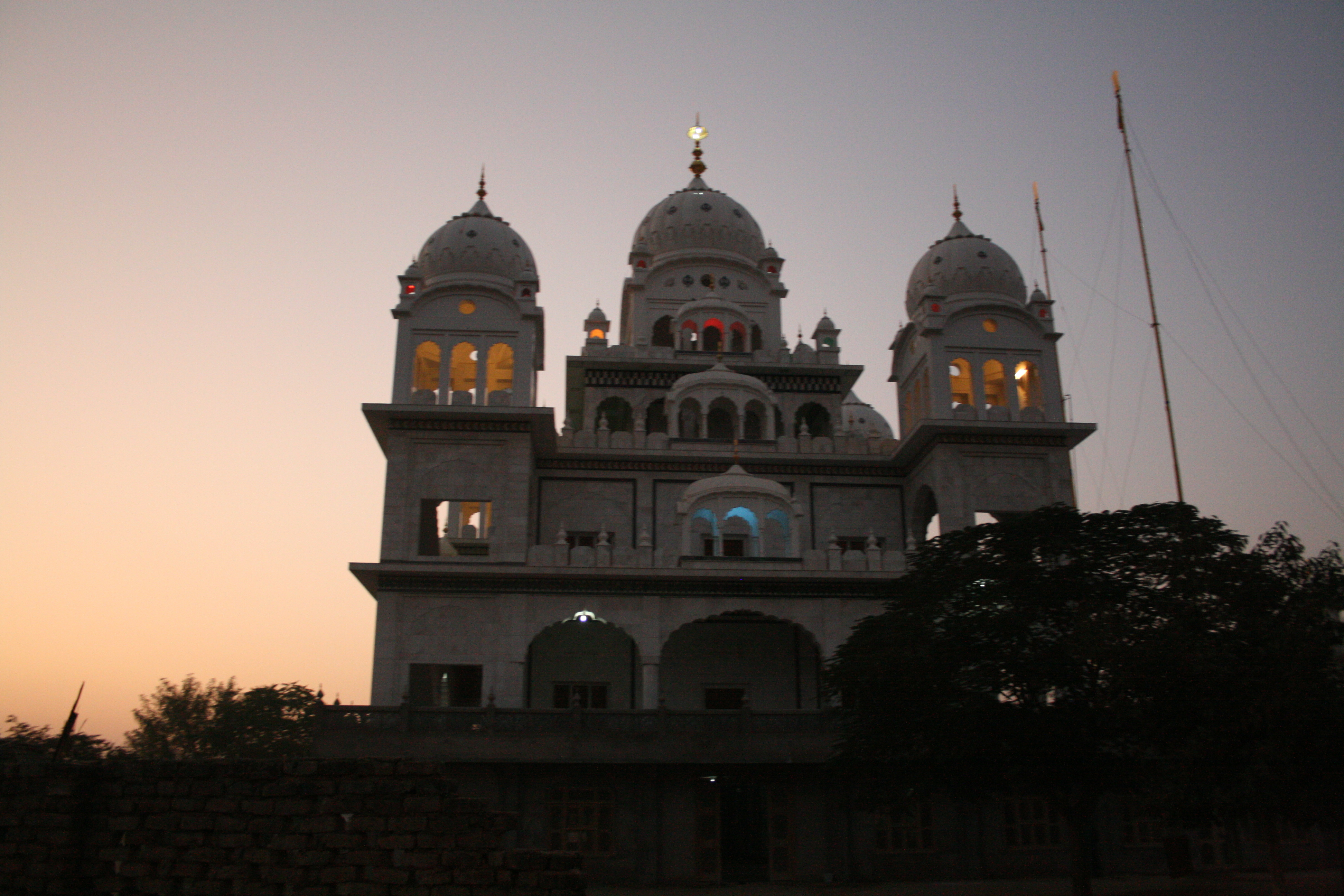 Gurudwara Singh Sabha Pushkar, India